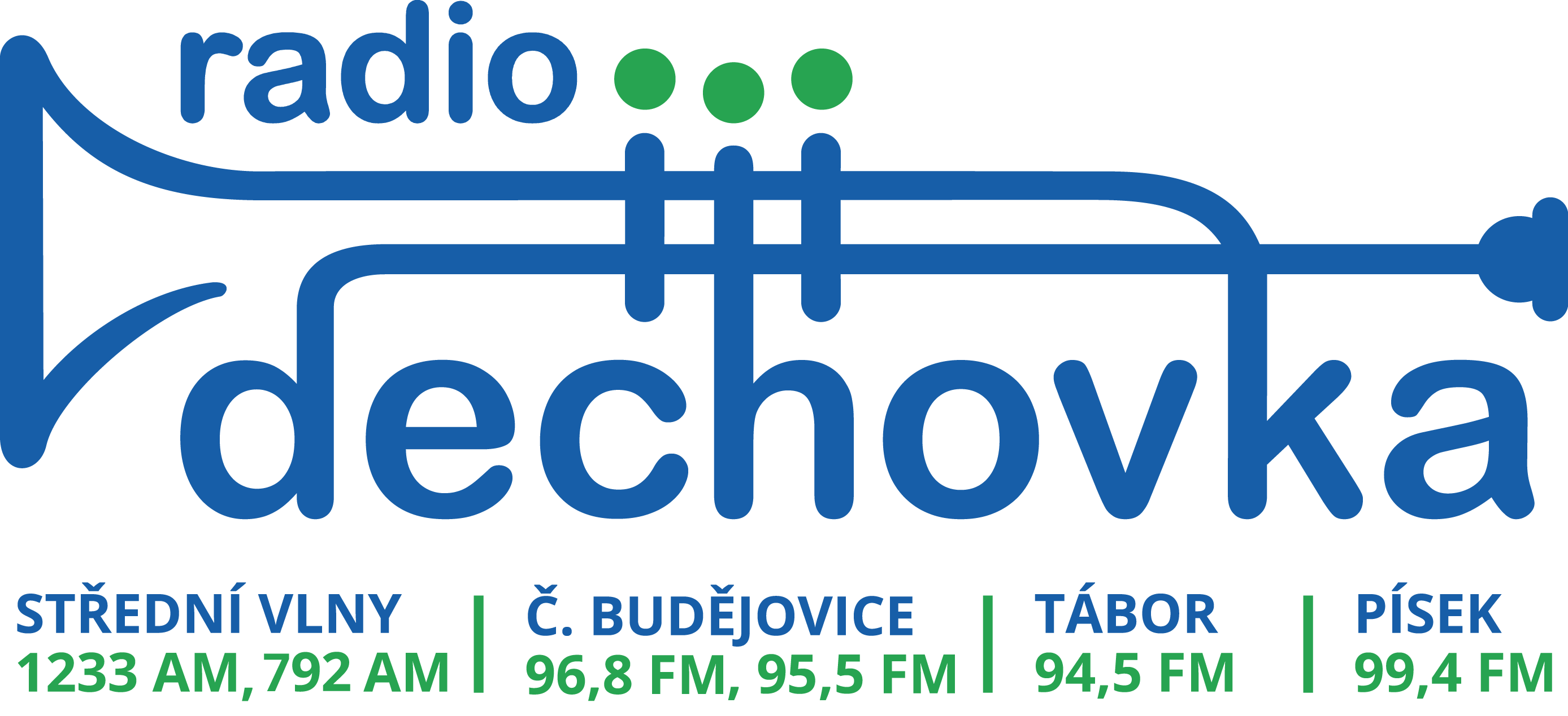 Radio Dechovkas logo with frequencies